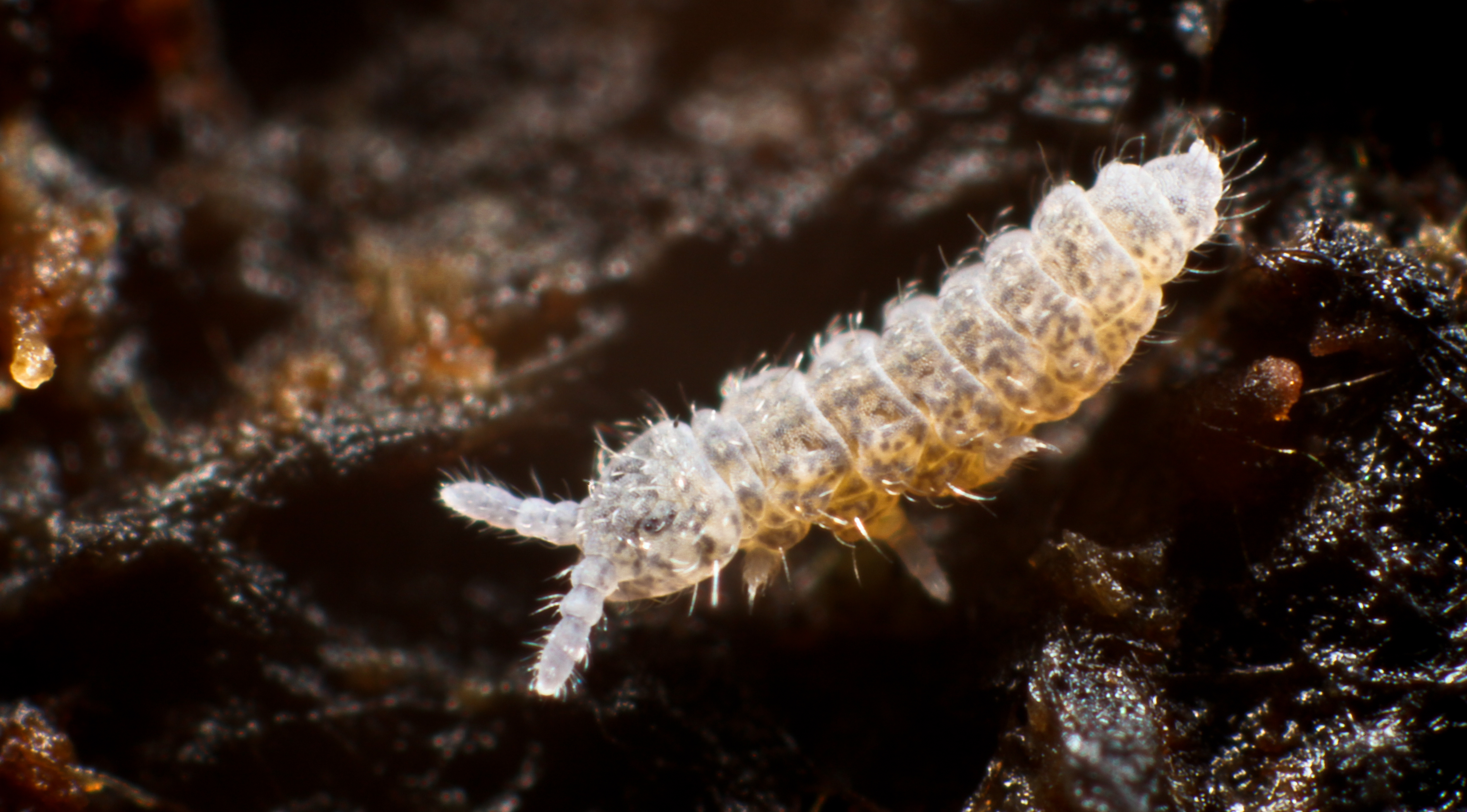 Schaefferia emucronata from Stourton, Wiltshire, England, United Kingdom. Original description on Flickr: Well, this one seems straightforward at least- I spent the day at Stourhead in the woods, though the weather was rotten- crazily windy and wet, so no relaxed hunting in the sun for me. Found a few interesting things though...